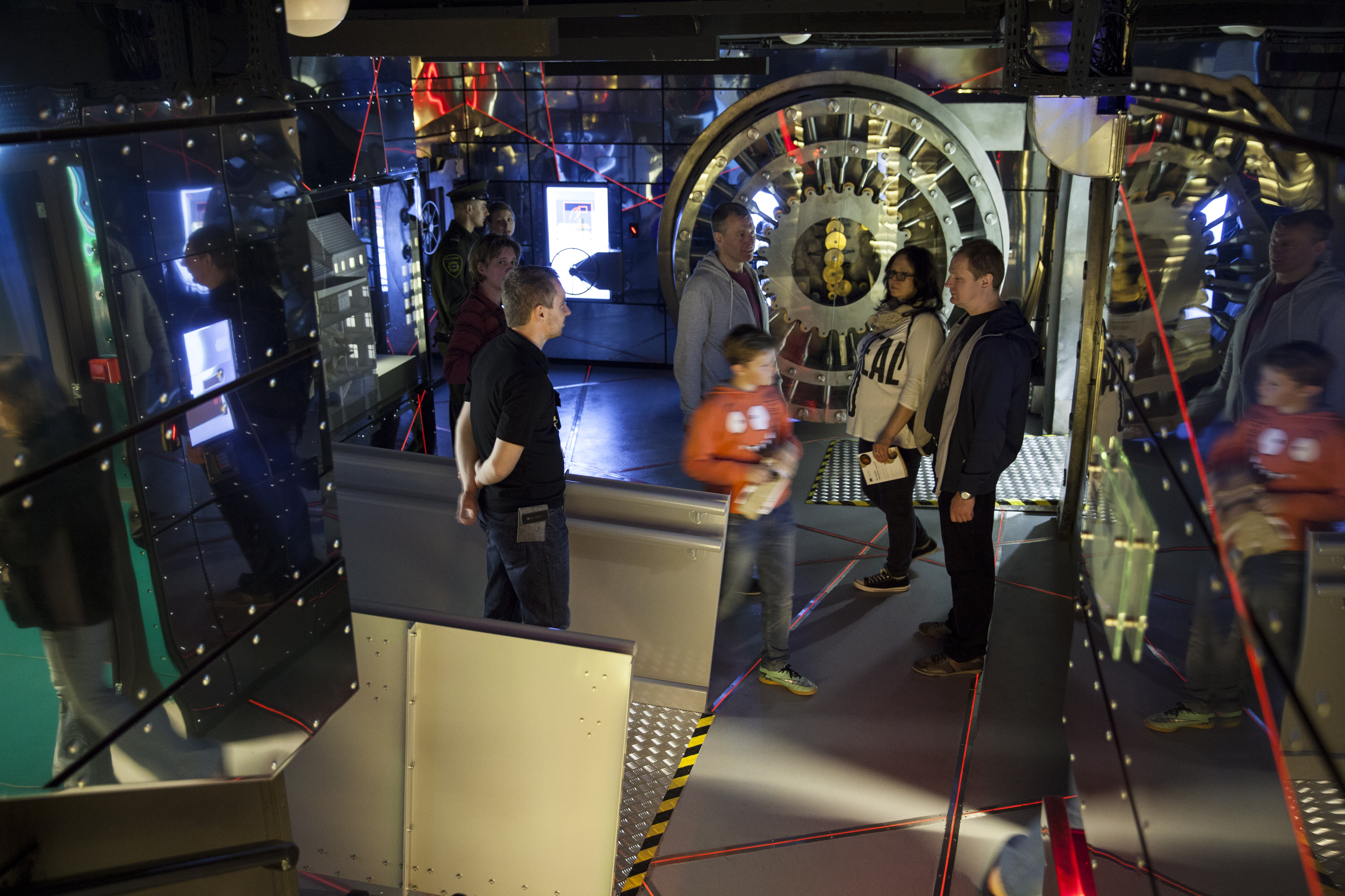 Bank vault in Centrum Pieniądza NBP im. Sławomira S. Skrzypka, Warsaw, Poland